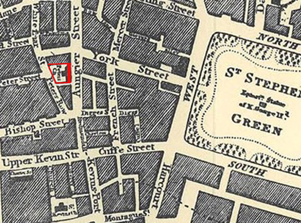 Detail of a map of Dublin from 1829, in public domain due to age